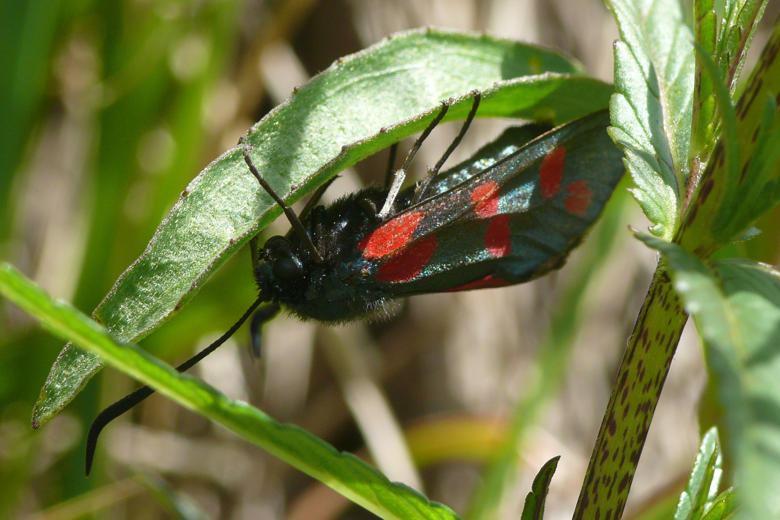 Six-spot lurnet (Zygaena filipendulae) laying eggs on Ox-eye (Buphthalmum salicifolium), Bayrischzell, Bavaria, Germany